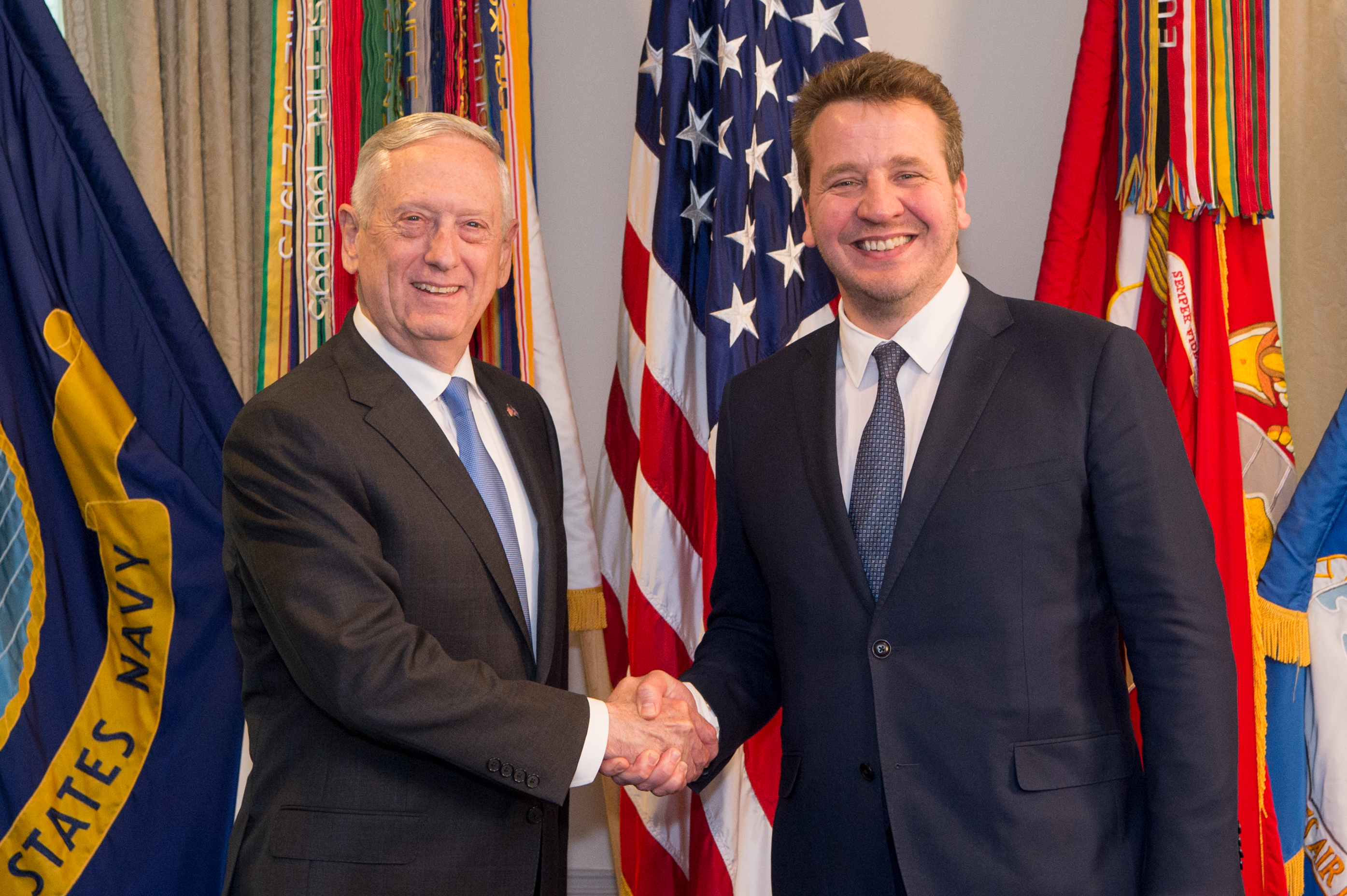 Defense Secretary James N. Mattis meets with Icelandic Minister for Foreign Affairs Thor Thordharson at the Pentagon in Washington, D.C., May 15, 2018. (DoD photo by Army Sgt. Amber I. Smith)